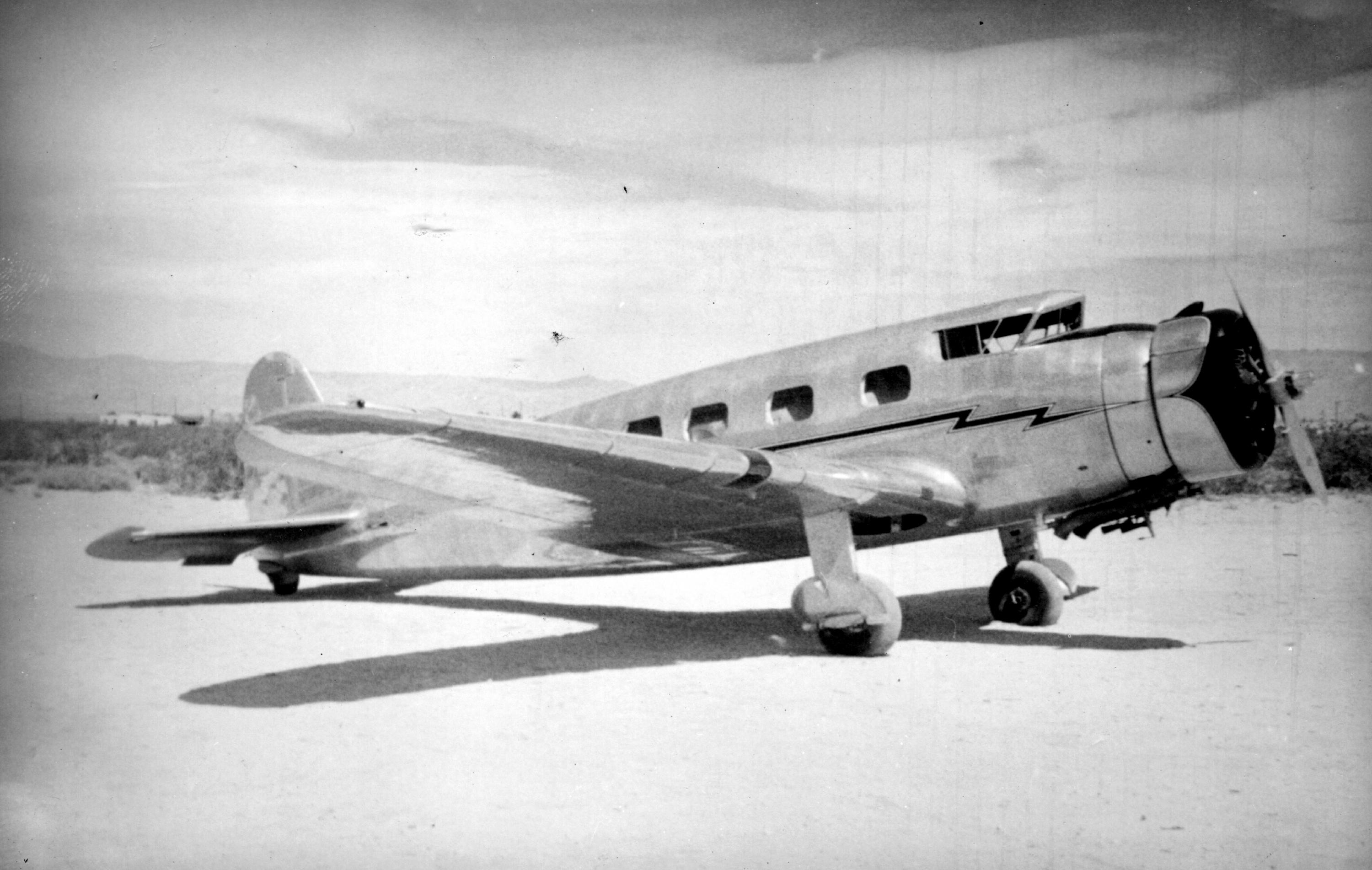 Vultee V-1A, NC14250, Glendale.